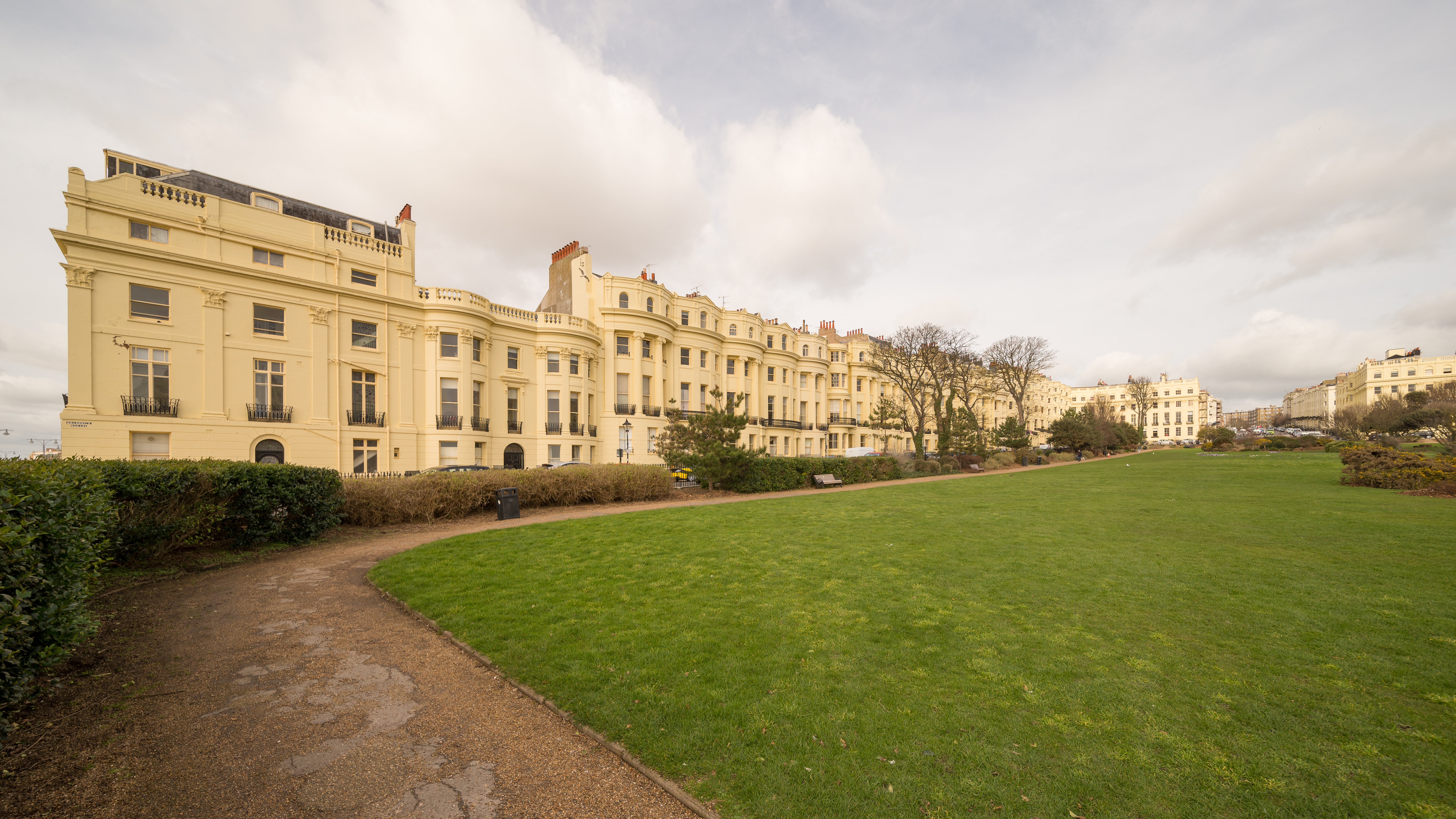 Brunswick estate and Brunswick Square in Hove (part of Brighton and Hove). A famous examples of Regency architecture.